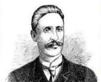 General cubano